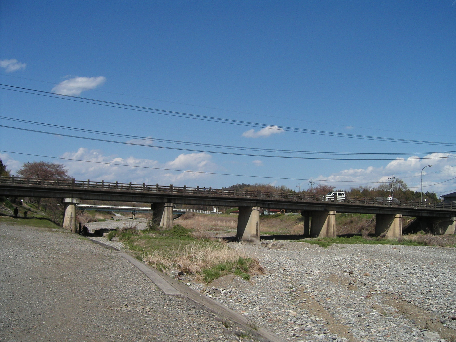 Hamuro Bridge (Hamuro-bashi) over the Hata River in Sano City, Tochigi Prefecture, Japan